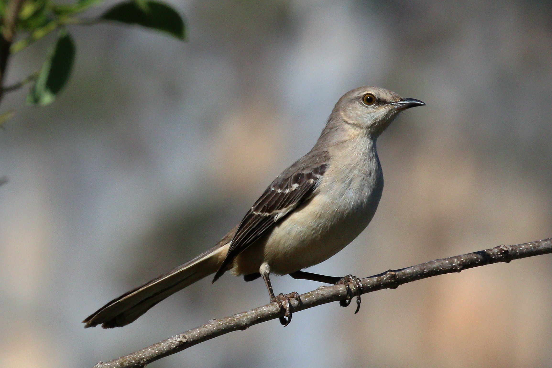 Northern mockingbird (Mimus polyglottos orpheus), Cuba